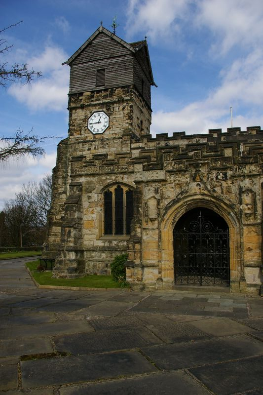 West tower and south porch of St Leonard's parish church, Middleton, Greater Manchester, seen from the southeast